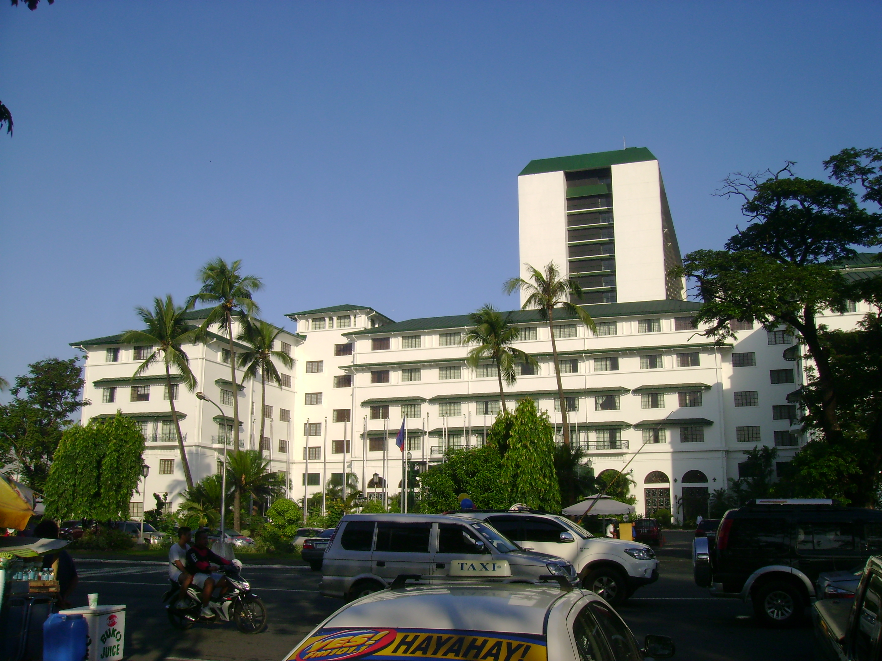 front of Manila Hotel near Rizal Park in Manila